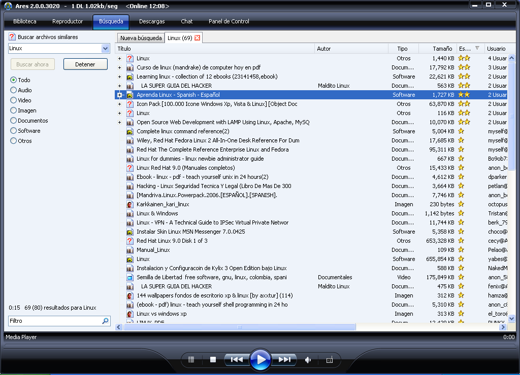 This is a screnshoot taken by me from the free software Ares Galaxy 2.0